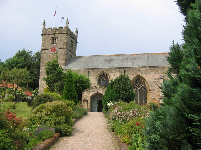 All Saints Church, Hunmanby, North Yorkshire